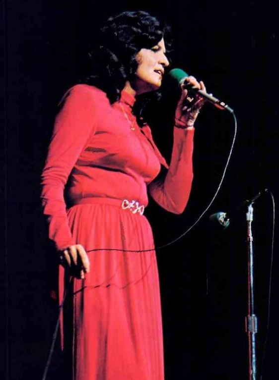 Jeanne Pruett onstage at the Grand Ole Opry, circa 1976.